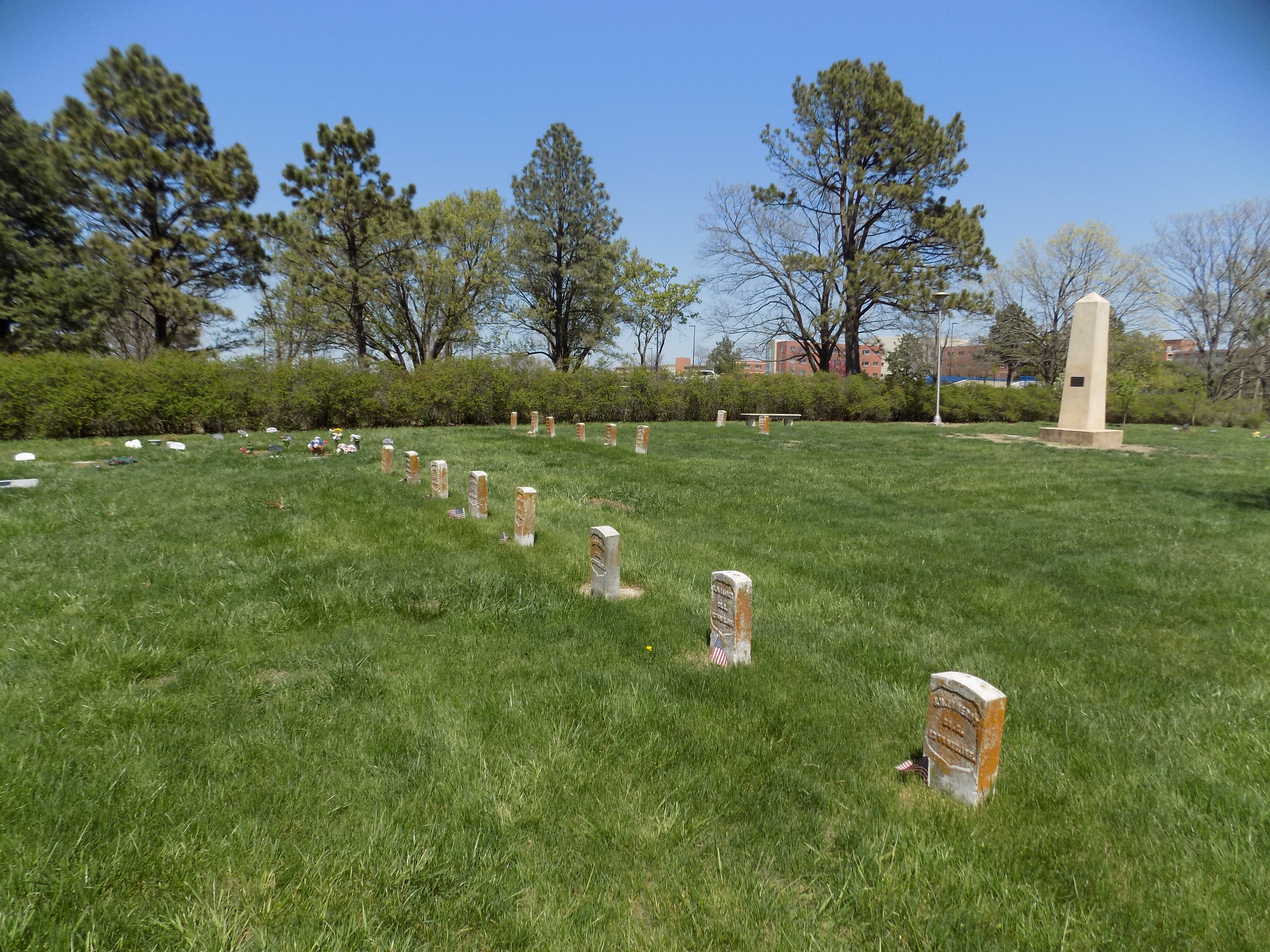 Pioneer Cemetery in Lawrence, KS, facing northeast. The burial grounds were originally known as Oread Cemetery in the 19th century. These graves markers were for the members of the 13th Wisconsin Volunteer Infantry, who died of typhoid in 1862.